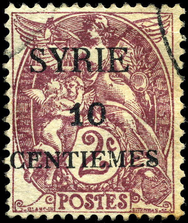 Syrian 10c overprint stamp of 1924